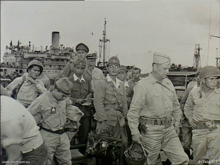 Australian War Memorial photo P02482.016. Morotai, Netherlands East Indies. Brigadier General McNaught (second from right) of the US Army's 93rd Division, escorts Lieutenant General (Lt Gen) Ishii (third from right), Commander of the 32nd Division and all other Japanese Armed Forces on Halmahera Island, ashore at the wharf. Lt Gen Ishii was accompanied by four high ranking Japanese Army and Navy Officers, two junior Officers (one an interpreter) and two other ranks personnel. Lt Gen Ishii and his party met with Major General Harry H. Johnson, Commander of the 93rd Division and all US installation on Morotai, in the Morotai Channel to discuss formal surrender arrangements. This was the first peaceful face to face meeting with Japanese Armed Forces. After these discussions, the Japanese party was escorted to Morotai for the formal surrender ceremony